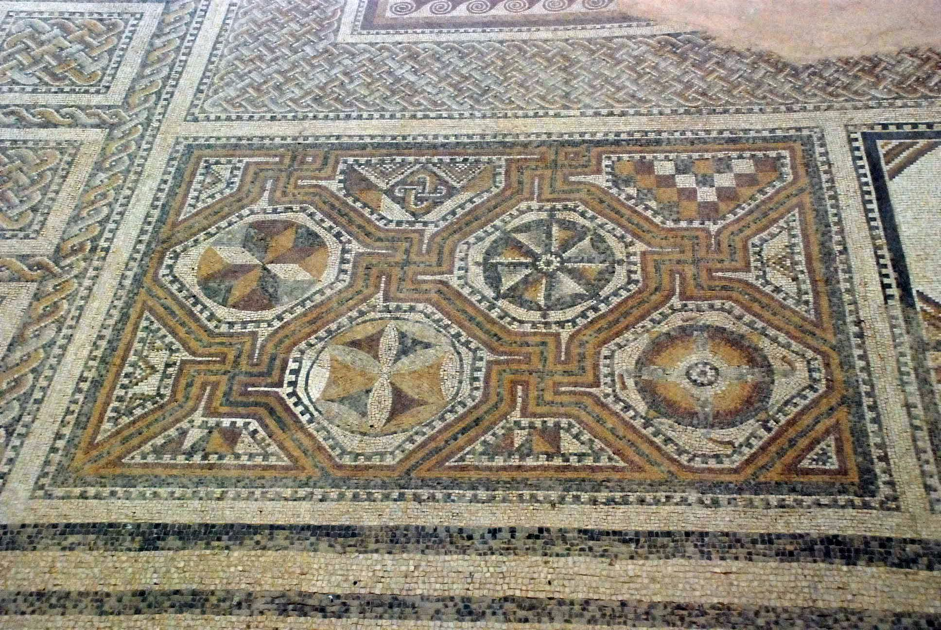 Room 22 with Ancient roman mosaic of Neptunus at Roman Villae of Tejada in Quintanilla de la Cueza (Palencia, Castile and León).